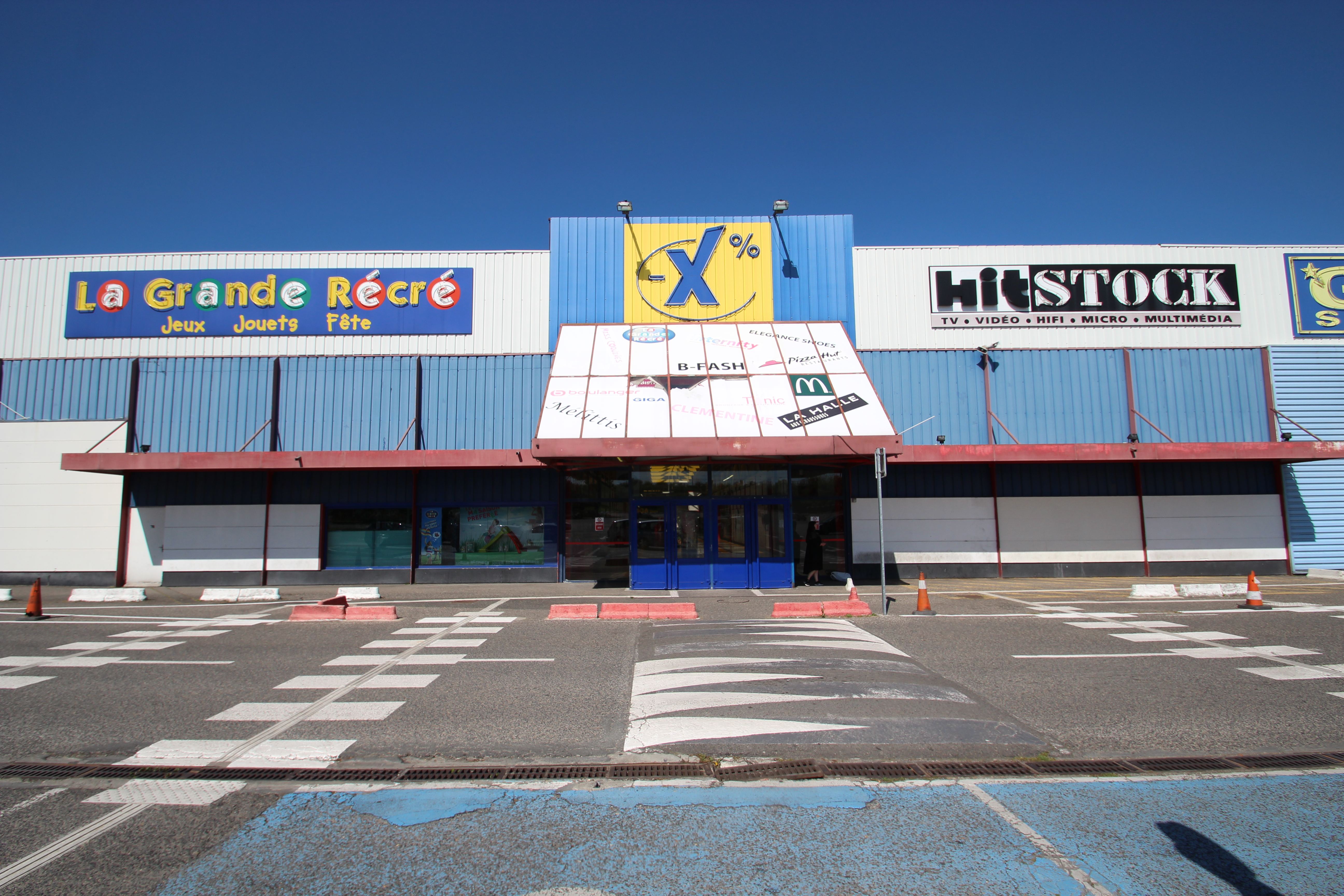 moins X pour cent shopping mall in Massy, Essonne, France. Object location48° 43′ 24.96″ N, 2° 16′ 29.28″ E